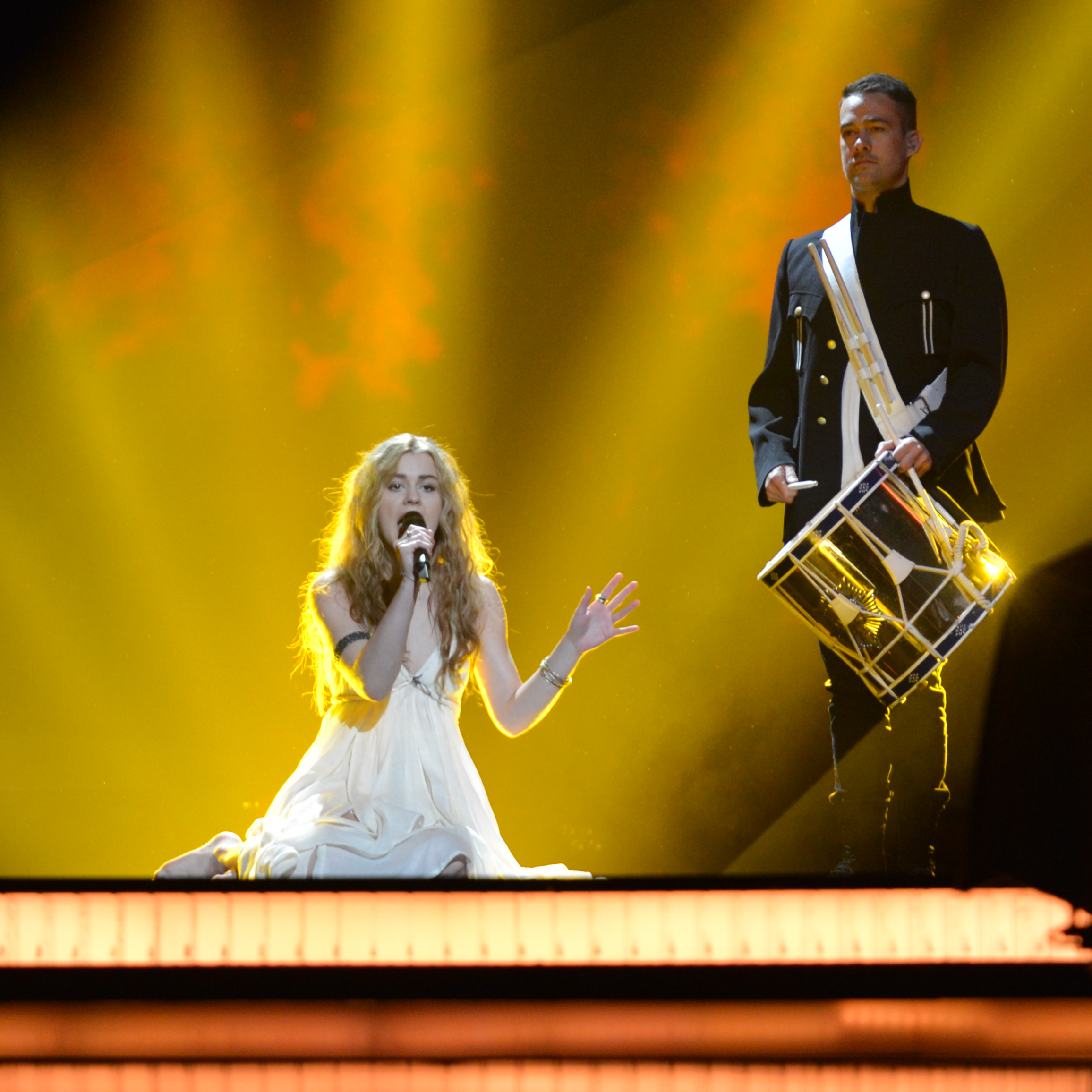 Emmelie de Forest representing Denmark with the song "Only Teardrops" during the first dress rehearsal of the first semi final of the Eurovision Song Contest 2013 in Malmö. (Help translate this text)